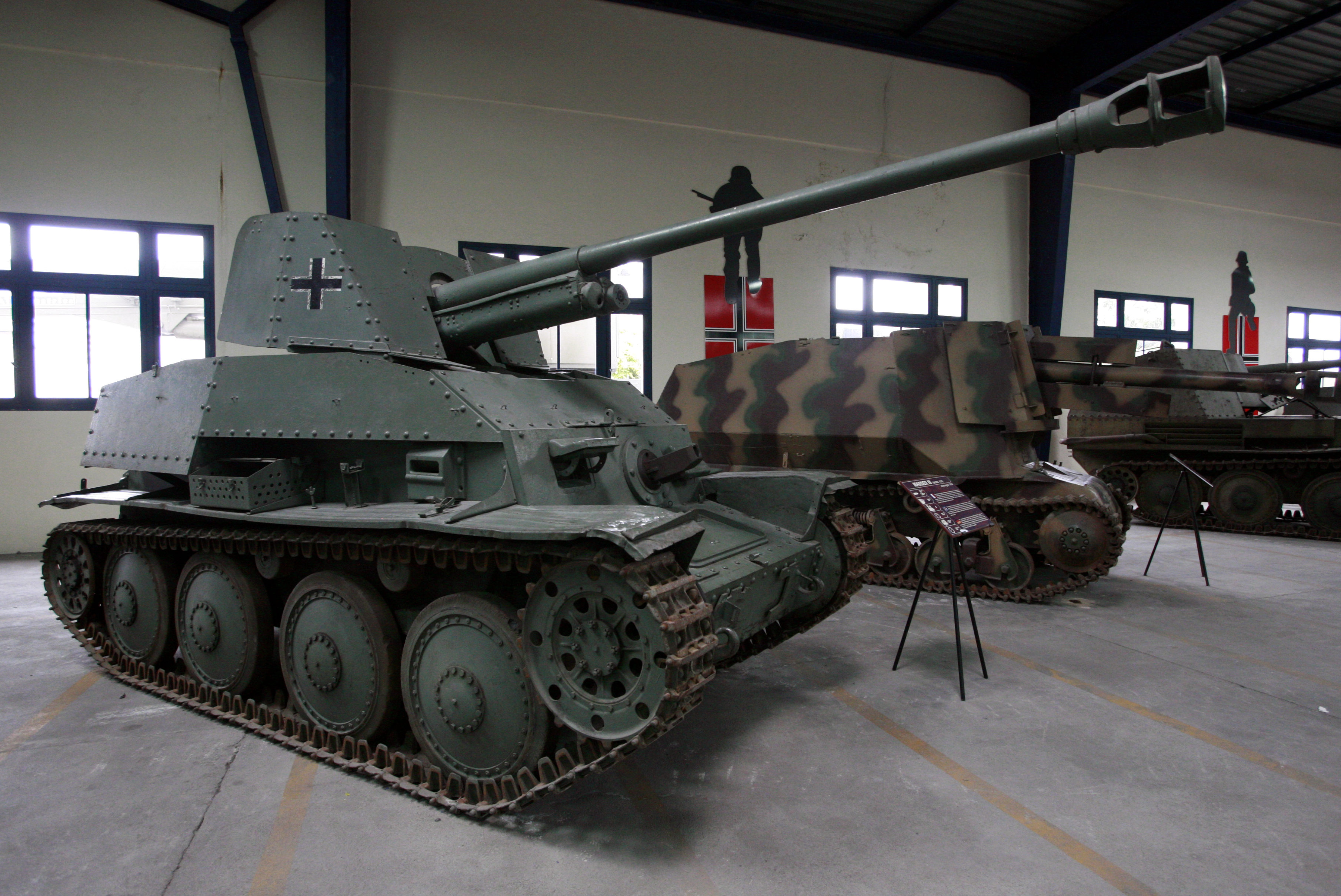 Marder III tank destroyer. On display at Saumur Général Estienne museum.